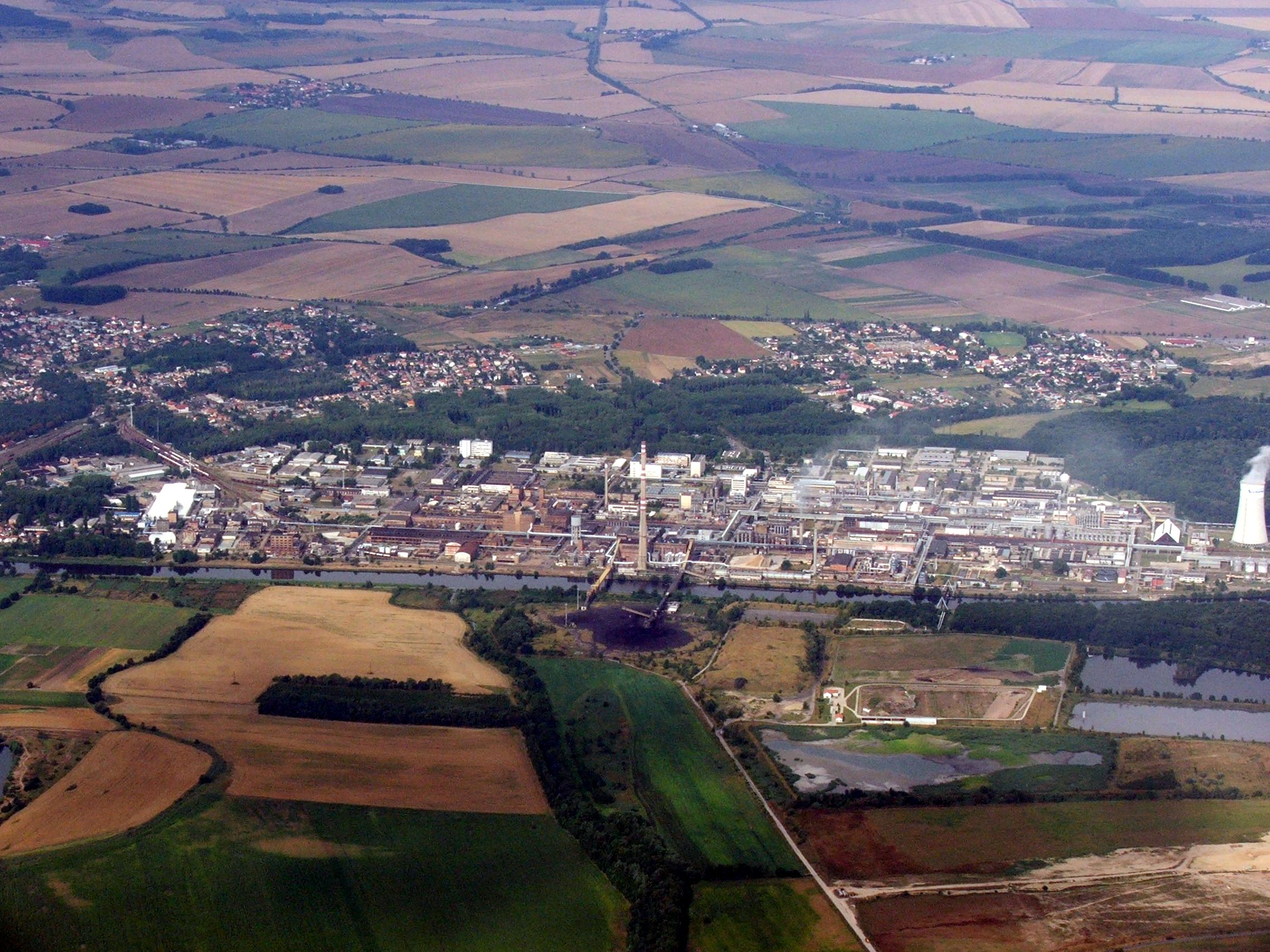 Aerial view of chemical factory Spolana in Neratovice and Libiš, the Czech Republic